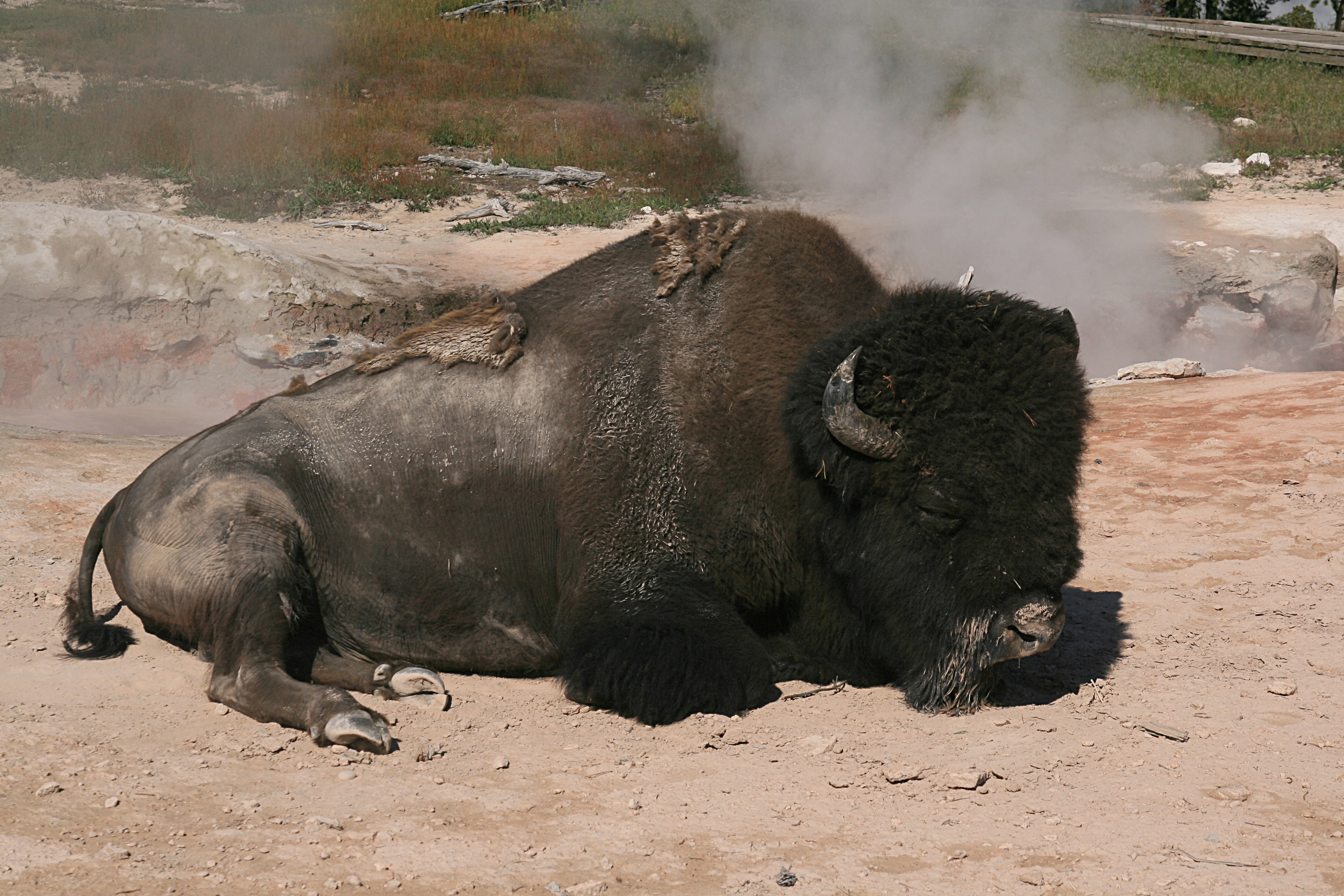 American bison ,Bison bison is resting at hot spring in Yellowstone National Park